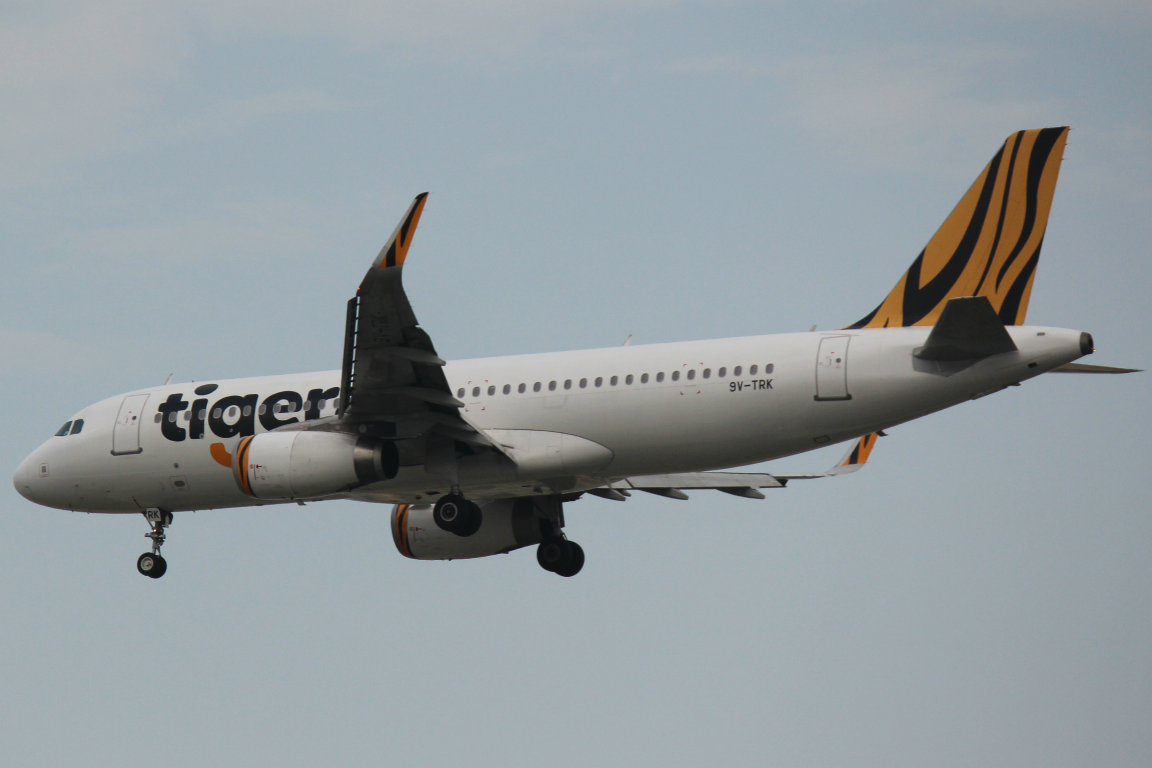 Approaching Singapore Changi 02L. Photo taken on 14 Oct 2014. Shot with my Canon 600D using 55-250mm lens.